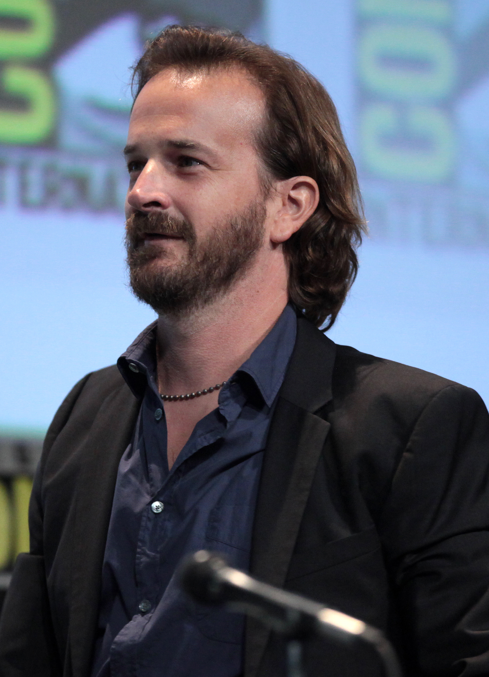 Richard Speight, Jr. at the 2015 San Diego Comic Con International in San Diego, California.